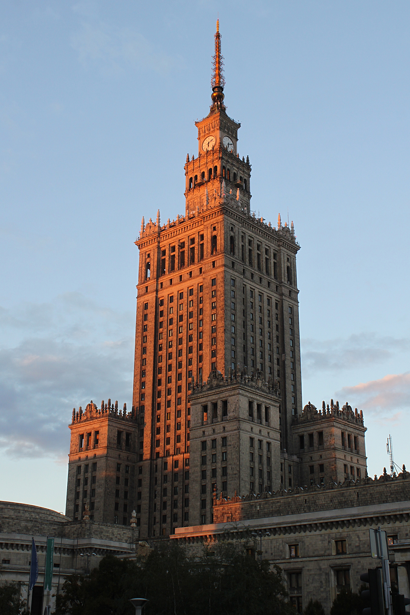 PKiN in Warsaw.